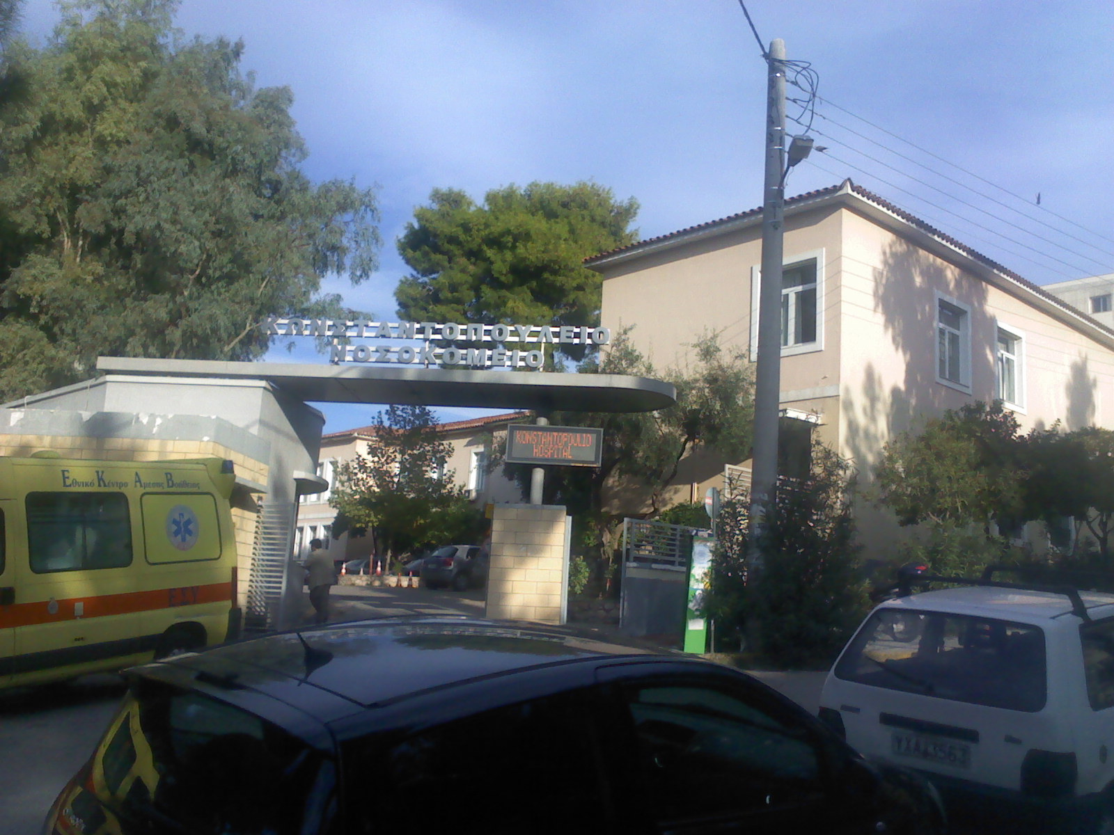 Konstantopouleio Hospital